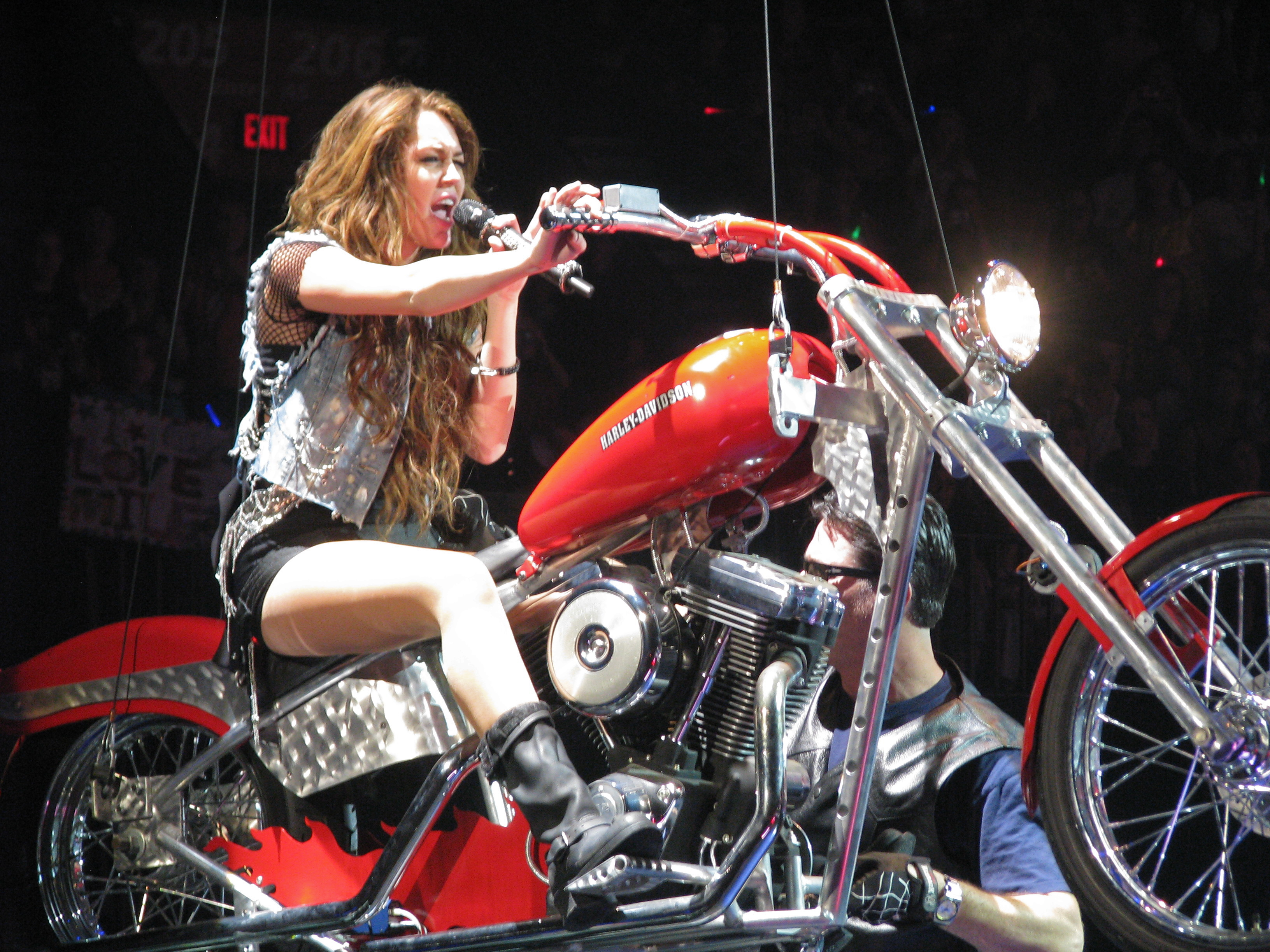 A teen singing.